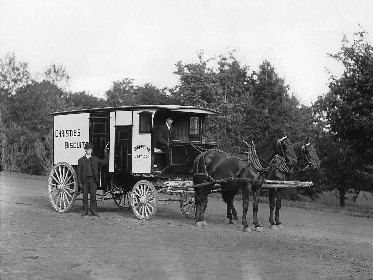 Photograph, Christie's biscuit wagon, Montreal, QC, 1904, Wm. Notman & Son, Silver salts on glass - Gelatin dry plate process